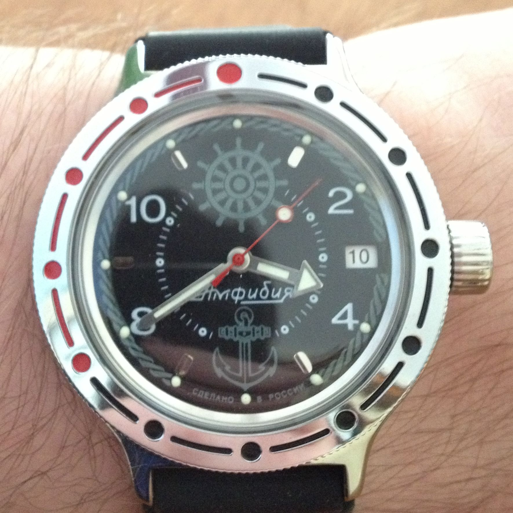 Zissou Vostok Amphibia watch.